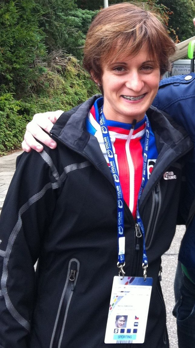 2012 UCI Road World Championships Valkenburg - Women's elite time trial